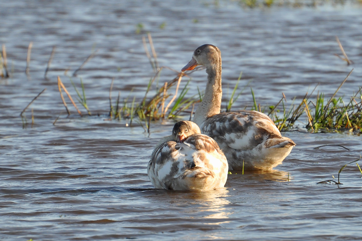 Two juvenile Coscoroba Swans in Mostardas, Rio Grande do Sul, Brazil.